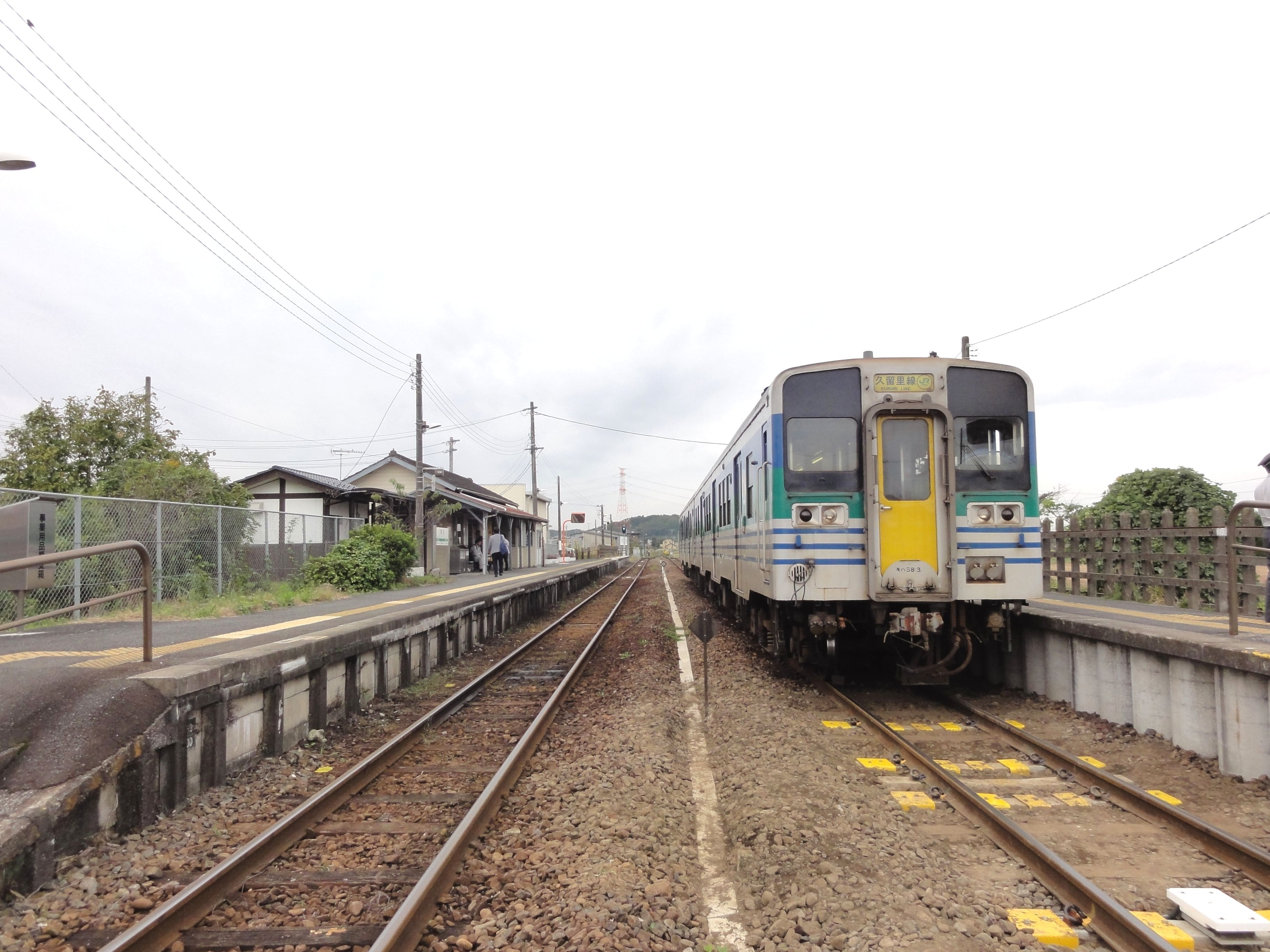 View of the platforms at Yokota Station on the Kururi Line, with a KiHa 38 DMU train on the right